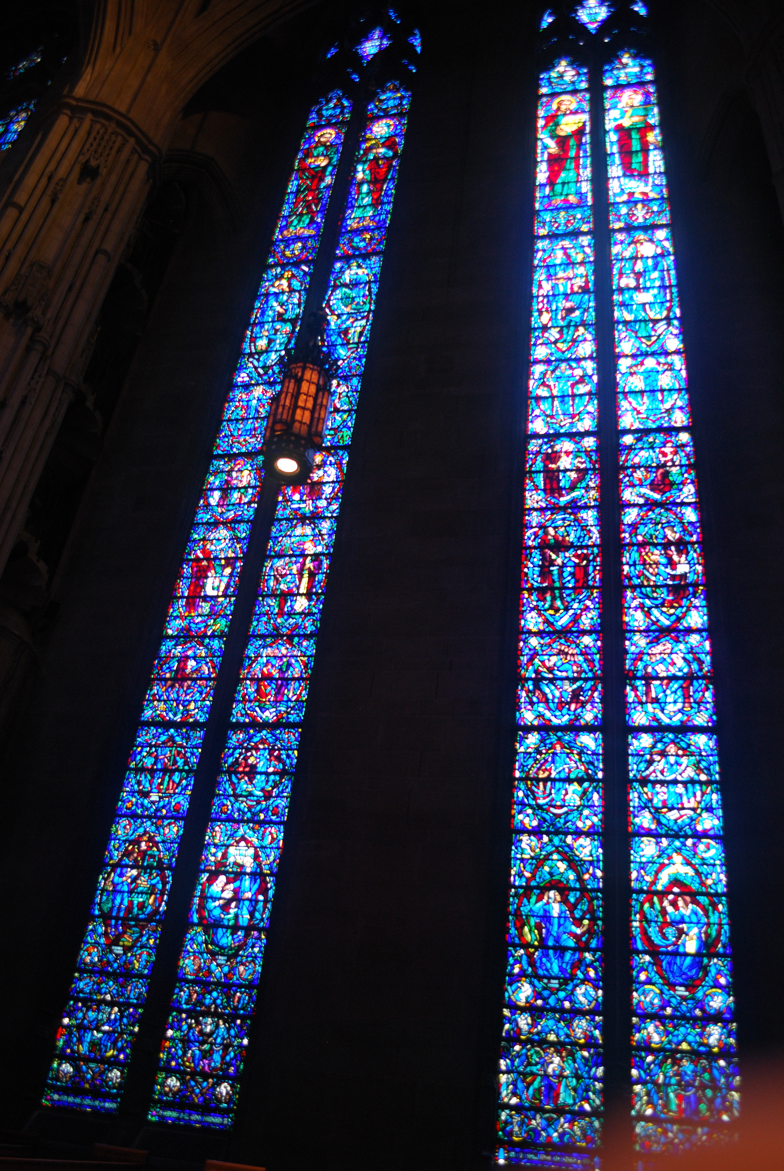 73-foot tall South Transept windows of Heinz Memorial Chapel on the campus of the University of Pittsburgh.